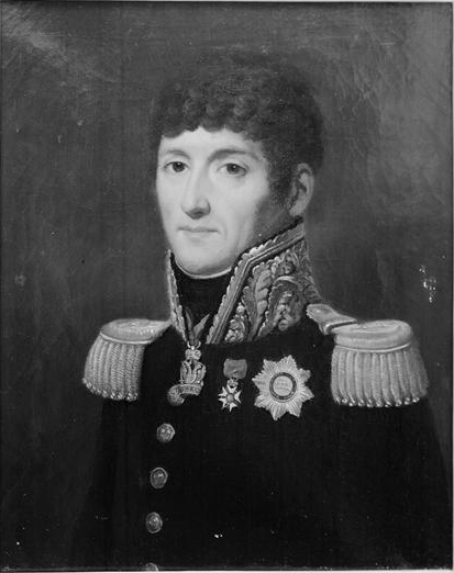 Portrait of Jean Barthelemot, comte Sorbier (1763-1827), a general of the Napoleonic Wars.